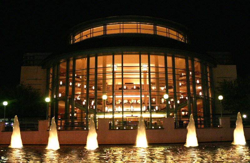 Kravis Center for the Performing Arts at night